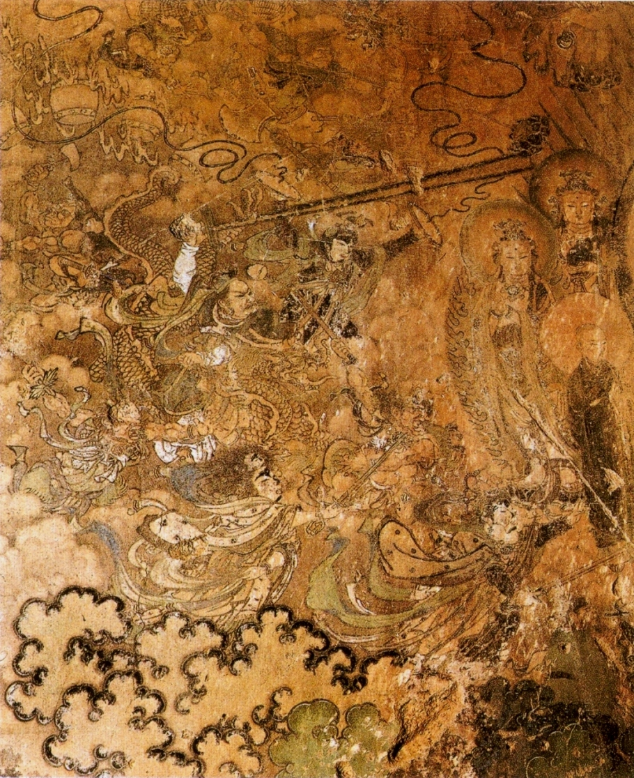 Atelier_of_Wang_Kui_(12_century)._The_Defeat_of_Mara_(detail_of_The_Life_of_Shakyamuni)._1167._Mural._West_wall,_Manjushri_Hall,_Yanshansi,_Fanshixian,_Shanxi_Province.